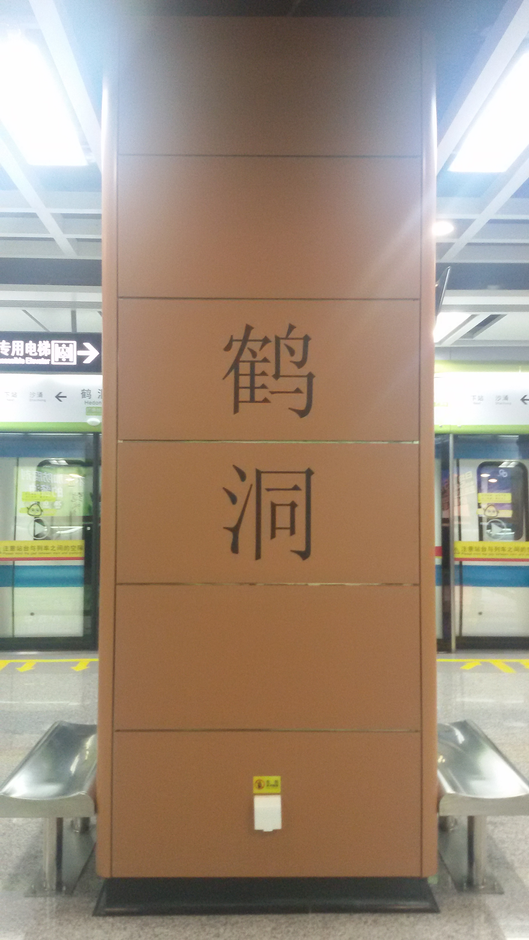 WORD on PILLAR for Hedong Station in FMetro.